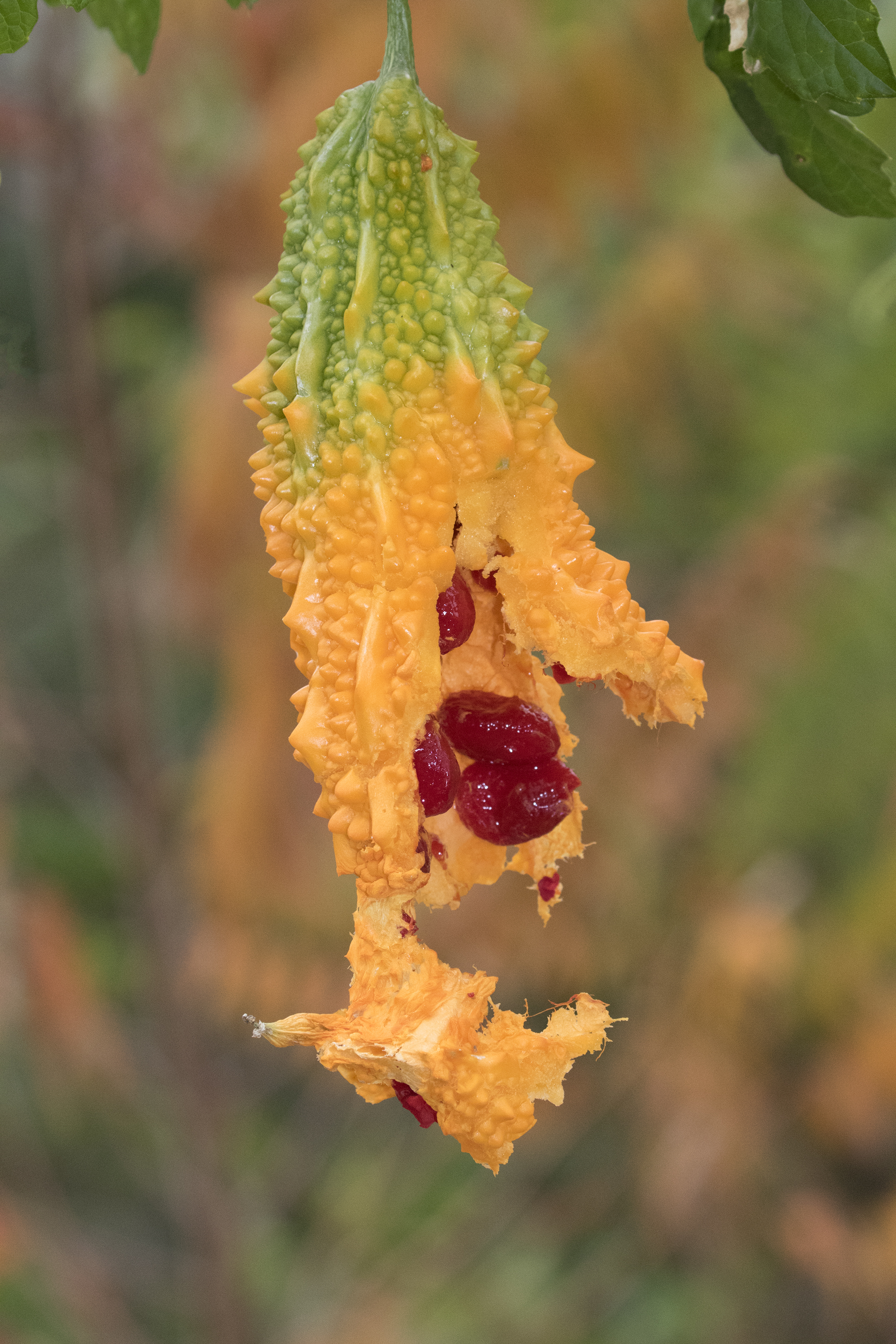 Bitter melons in Ali Nihat Gökyiğit Botanical Garden of Çukurova University, Balcalı, Sarıçam - Adana, Turkey.